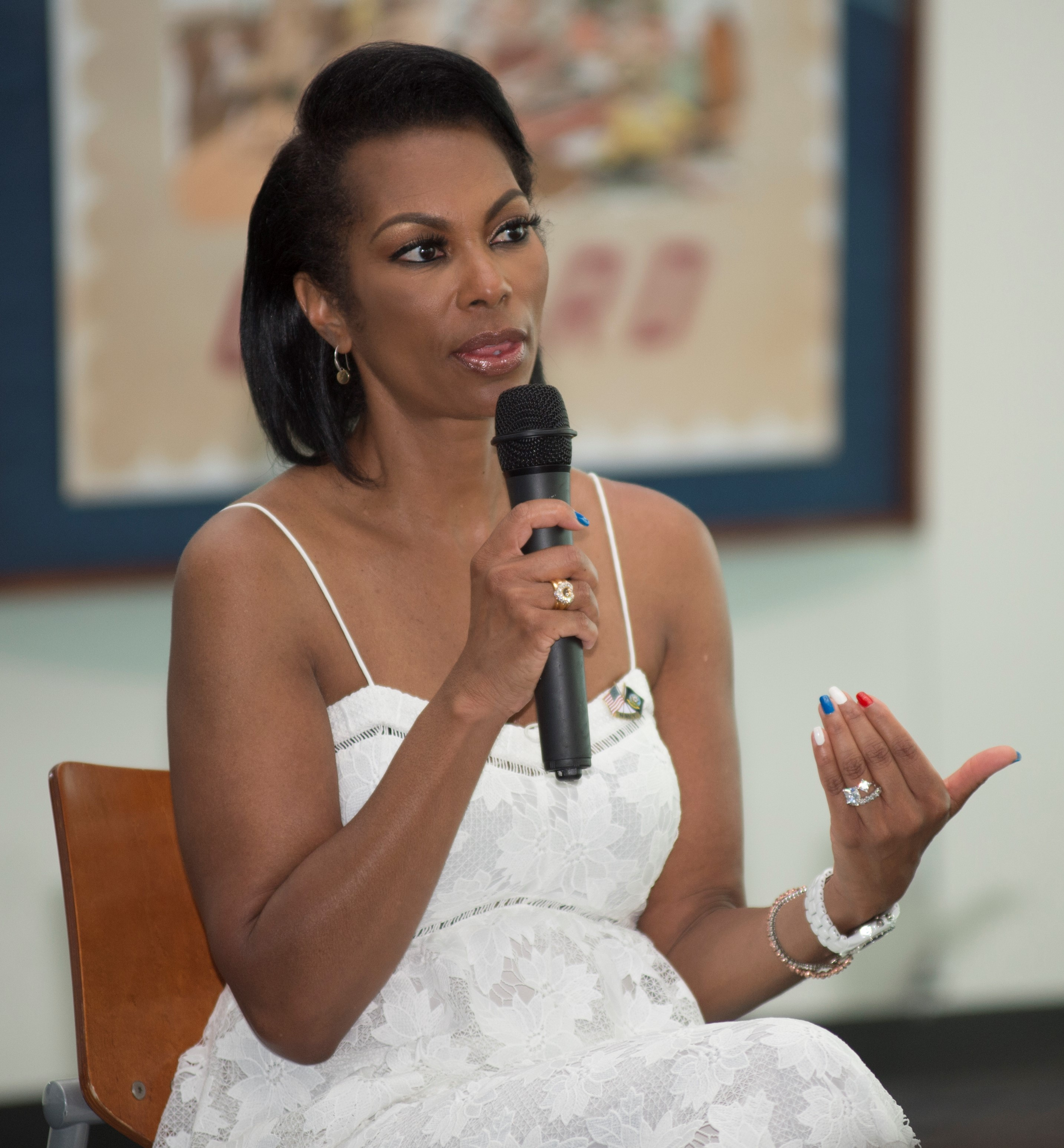 180704-N-AG490-0529 NORFOLK (July 4, 2018) Harris Faulkner, a news anchor for Fox News, speaks with an audience during a symposium in the Half Moone Cruise Terminal during the 36th Annual Great American Picnic. The Great American Picnic is a free annual event that takes place on Independence Day and is open to both civilians and military members. (U.S. Navy photo by Mass Communication Specialist Seaman Maxwell Anderson/Released)